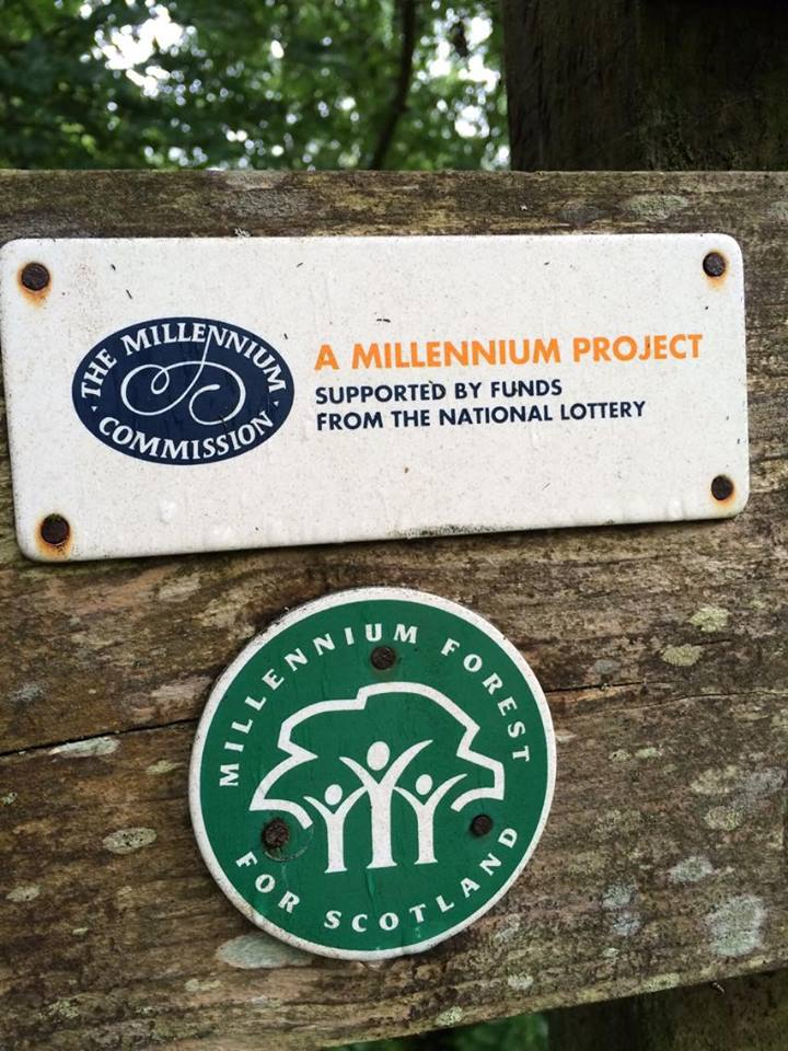 Logo for The Millenium Commission and MFfS